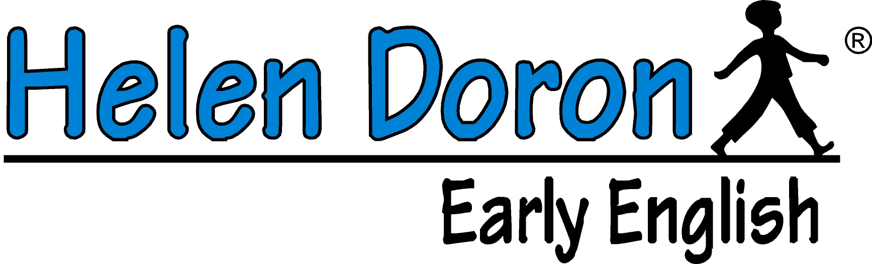 Helen Doron Early English